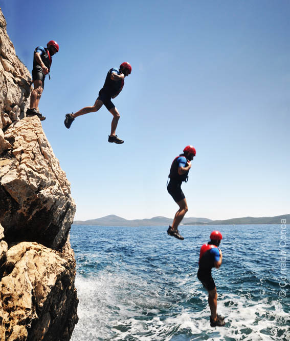 Coasteering in Sardinia